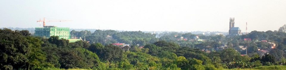 Looking south over northern San Jose Del Monte.